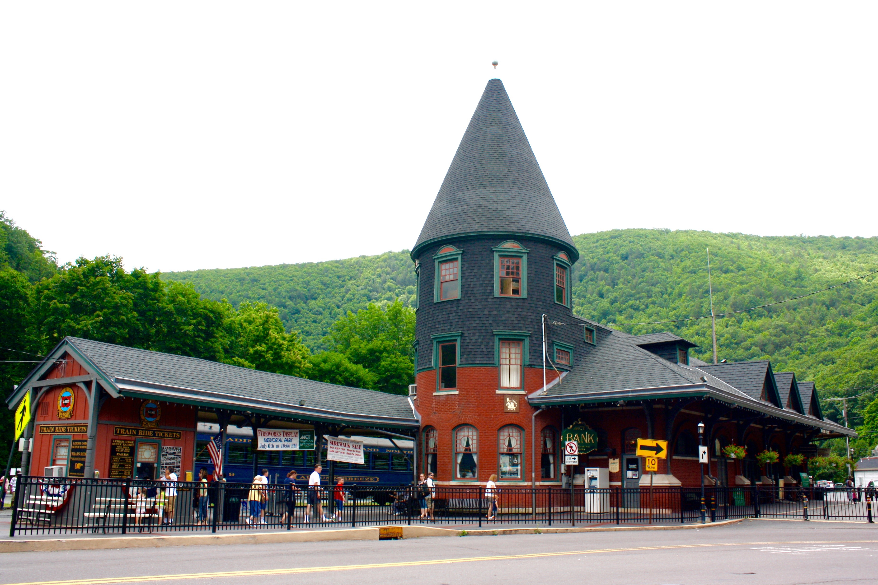 The Central Railroad of New Jersey Station, also known as the Jersey Central Station and Jim Thorpe Station, is a historic railroad station located at Jim Thorpe, Carbon County, Pennsylvania.